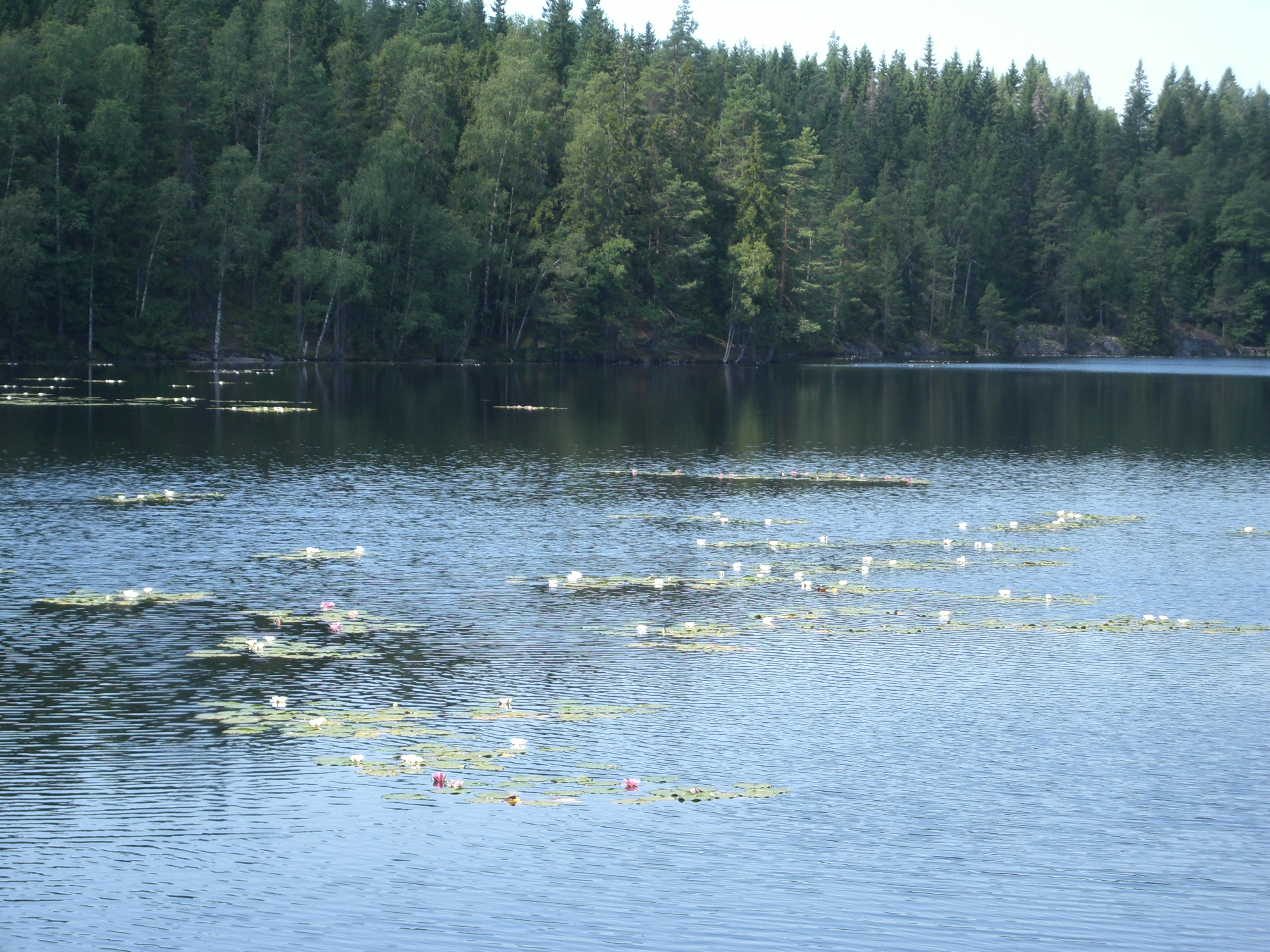 Red and white water lilies in Lake Fagertärn, Tiveden, Sweden